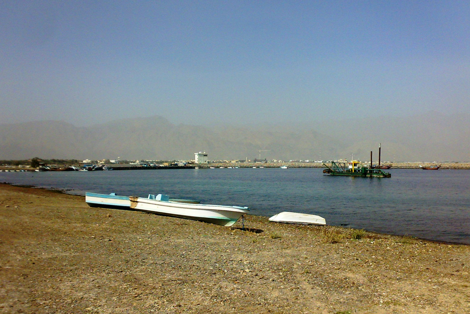 The city of Dibba, in northernmost Fujeirah emiorat (UAE), on the border towards Oman in the north.